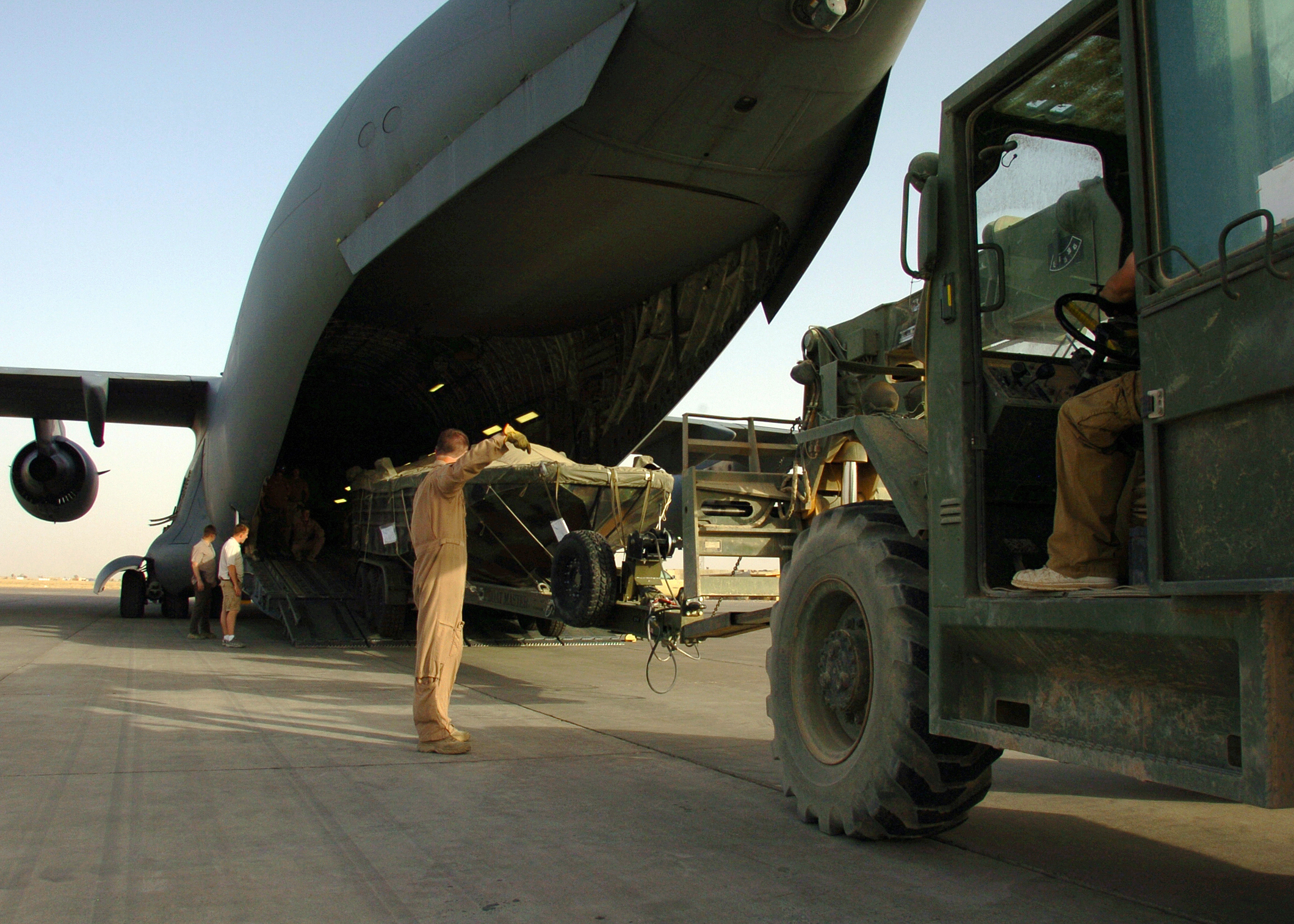 IRAQ (June 20, 2008) An Air Force crewman directs a forklift operator who carefully maneuvers a Naval Special Operations Craft-Riverine (SOC-R) out of an Air Force C-17 aircraft. A small team of Special Warfare Combatant-craft Crewmen (SWCC), which operates on SOC-Rs, is deployed to Iraq supporting the Global War on Terrorism. U.S. Navy photo by Mass Communication Specialist 3rd Class Robyn Gerstenslager (Released)